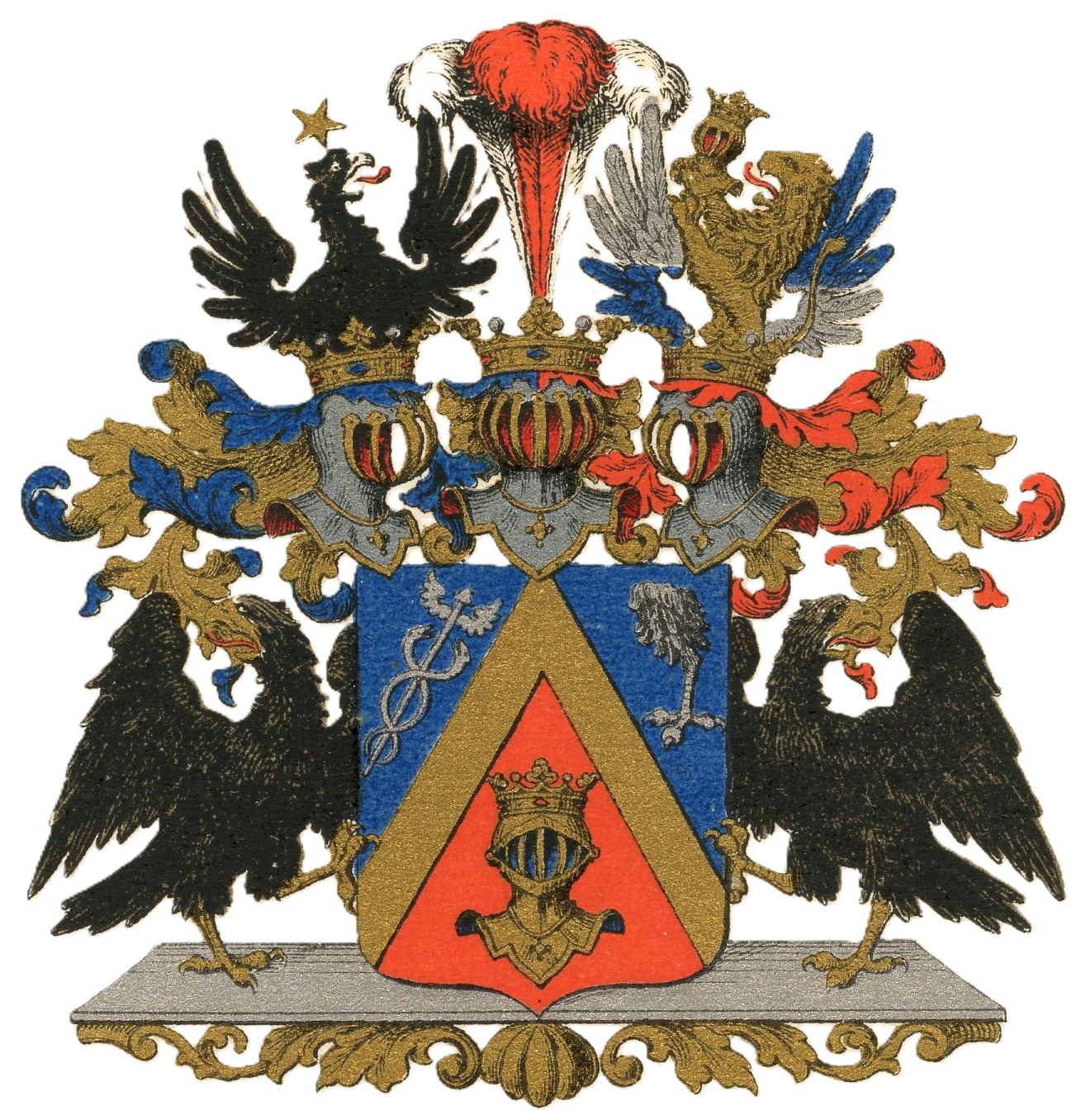 The coat of arms of the Swedish noble family von Cronhielm